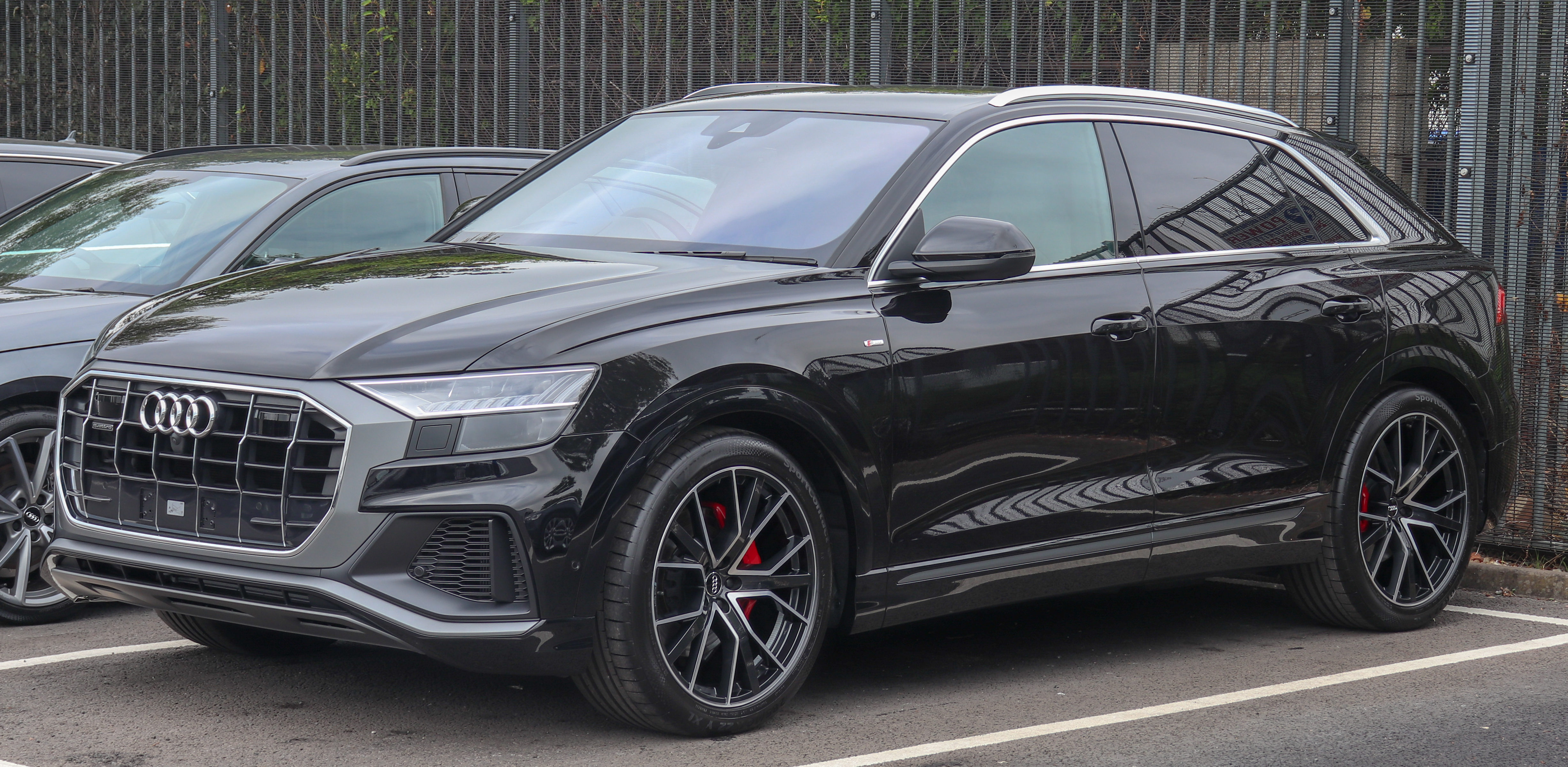 2018 Audi Q8 Taken in Stratford-upon-Avon